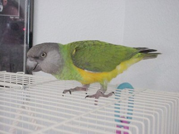 Senegal parrot